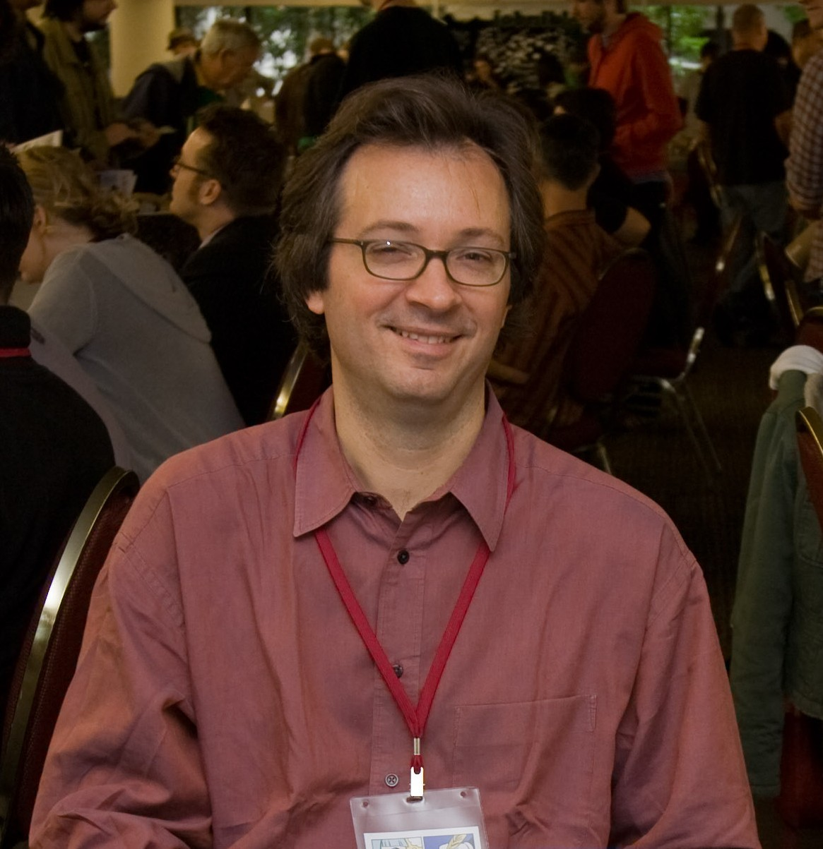 Ted Rall at Stumptown Comics Festival 2007 Cropped by Magnus Manske